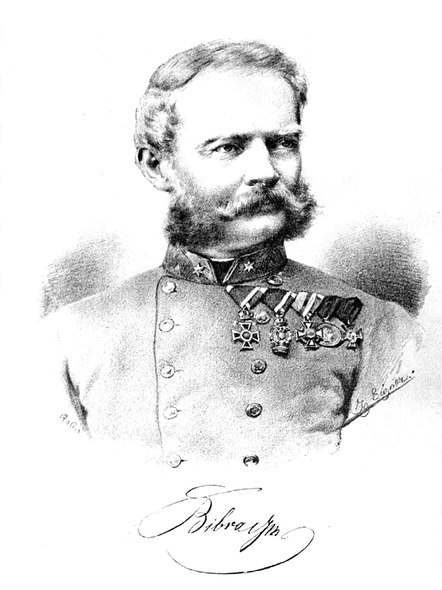 apparent print of Wilhelm Franz Frhr. von Bibra, k. und k. armey, high armey officer